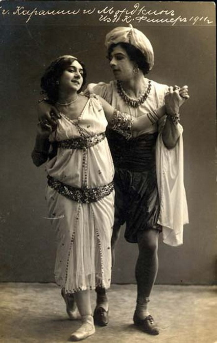 karalli